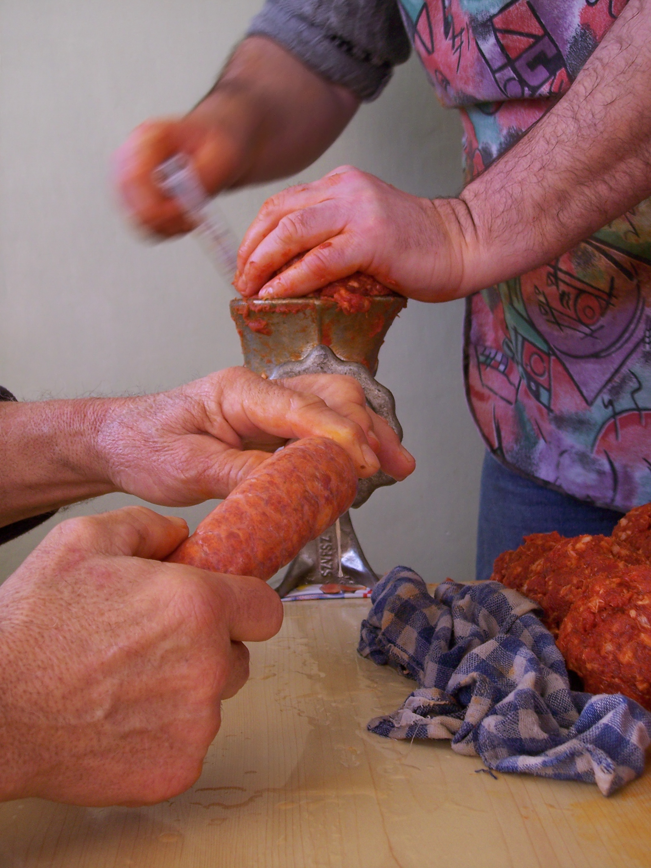 Ordinary sausage making in Hungary.